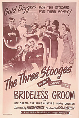 Lobby card from The Three Stooges short film Brideless Groom. Original copyright Columbia Pictures, 1947; copyright not renewed. Used to illustrate film being described.